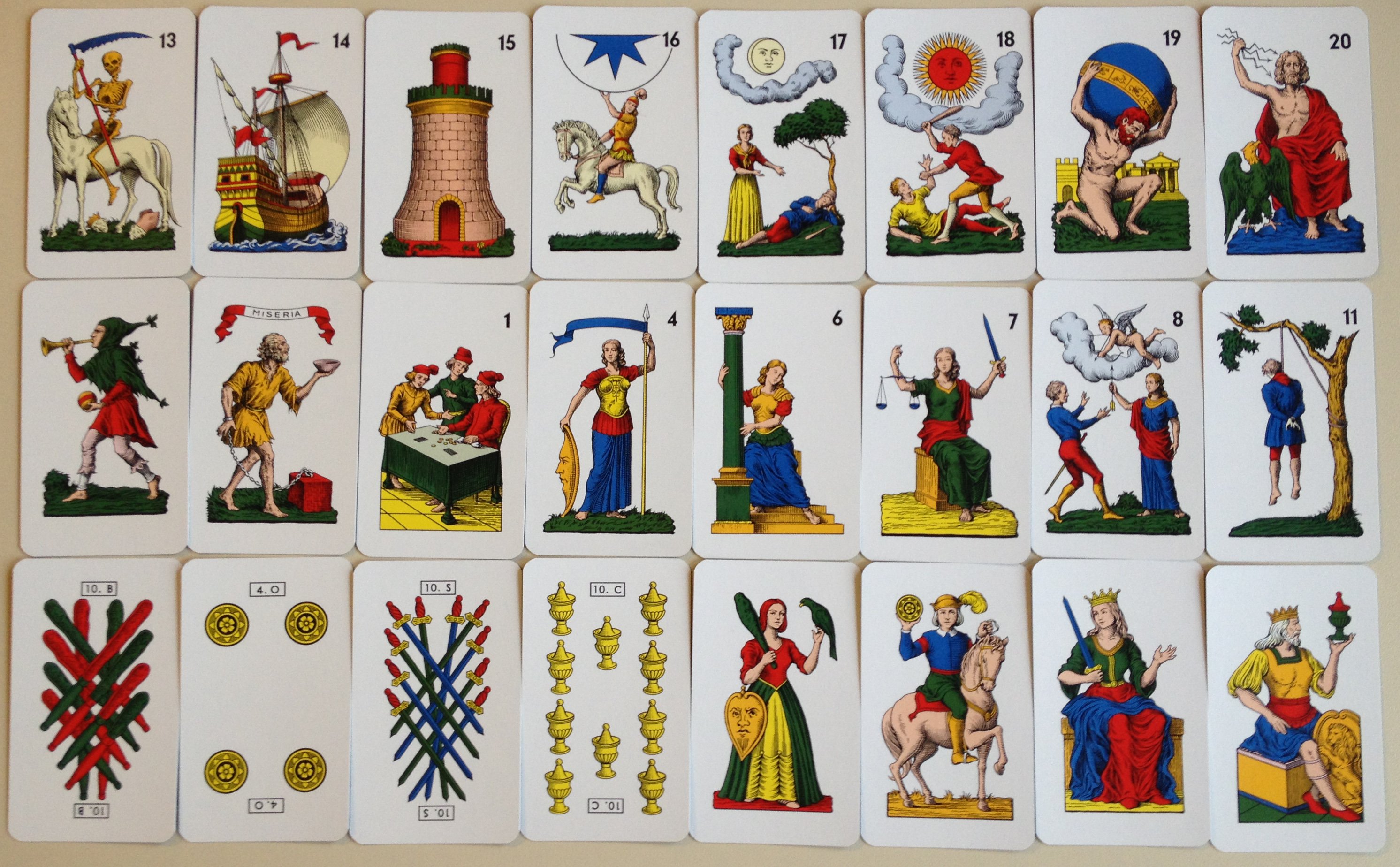 Photo of select cards from the Tarocco Siciliano. These particular cards were made by Modiano. The design of this pattern stabilized in the early 19th century. Its antecedents date to at least the 17th century if not earlier. It is not directly related to the standard Sicilian deck.